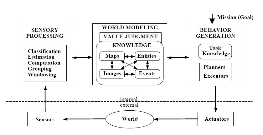 The basic internal structure of a 4D/RCS control loop. Sensory processing performs the functions of windowing, grouping, computation, estimation, and classification on input from sensors. World modeling maintains knowledge in the form of images, maps, entities, and events with states, attributes, and values. Relationships between images, maps, entities, and events are defined by pointers. These relationships include class membership, ontologies, situations, and inheritance. Value judgment provides criteria for decision making. Behavior generation is responsible for planning and execution of behaviors.